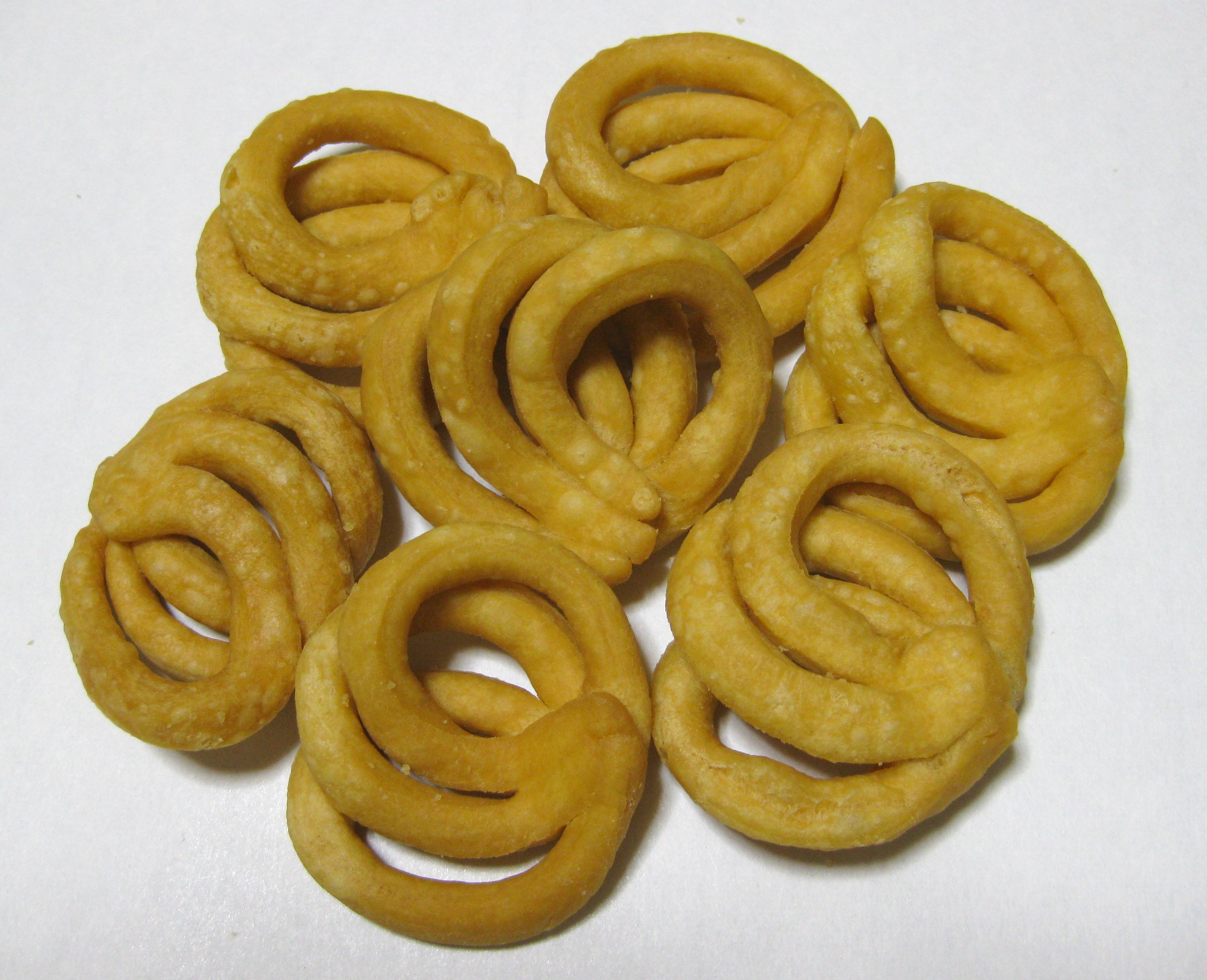 Fried Dough Named "Panapanbin" of Tarama, Okinawa